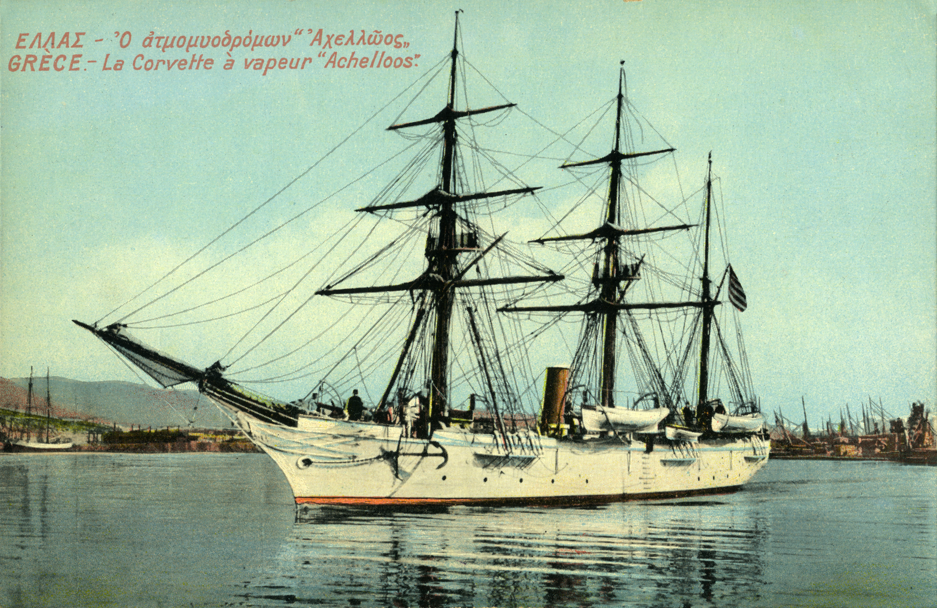 Steam corvette Acheloos, of the Greek Navy.